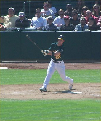 Jack Hannahan bats for the Oakland Athletics in 2007 07:05, 27 September 2007 . . Gimpy56 . . 341×408 (32 KB)